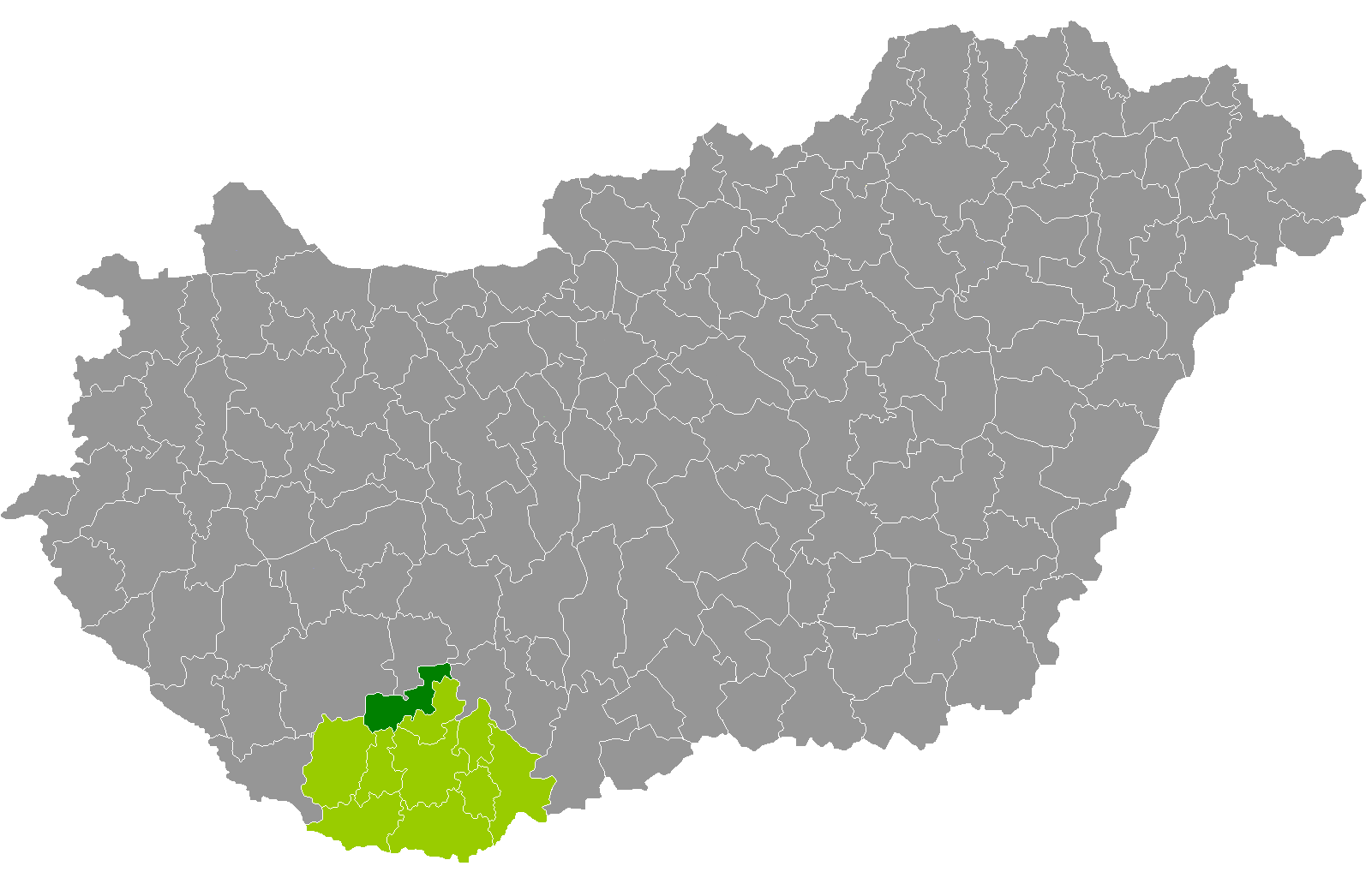 Location of Hegyhát District, Baranya, Hungary